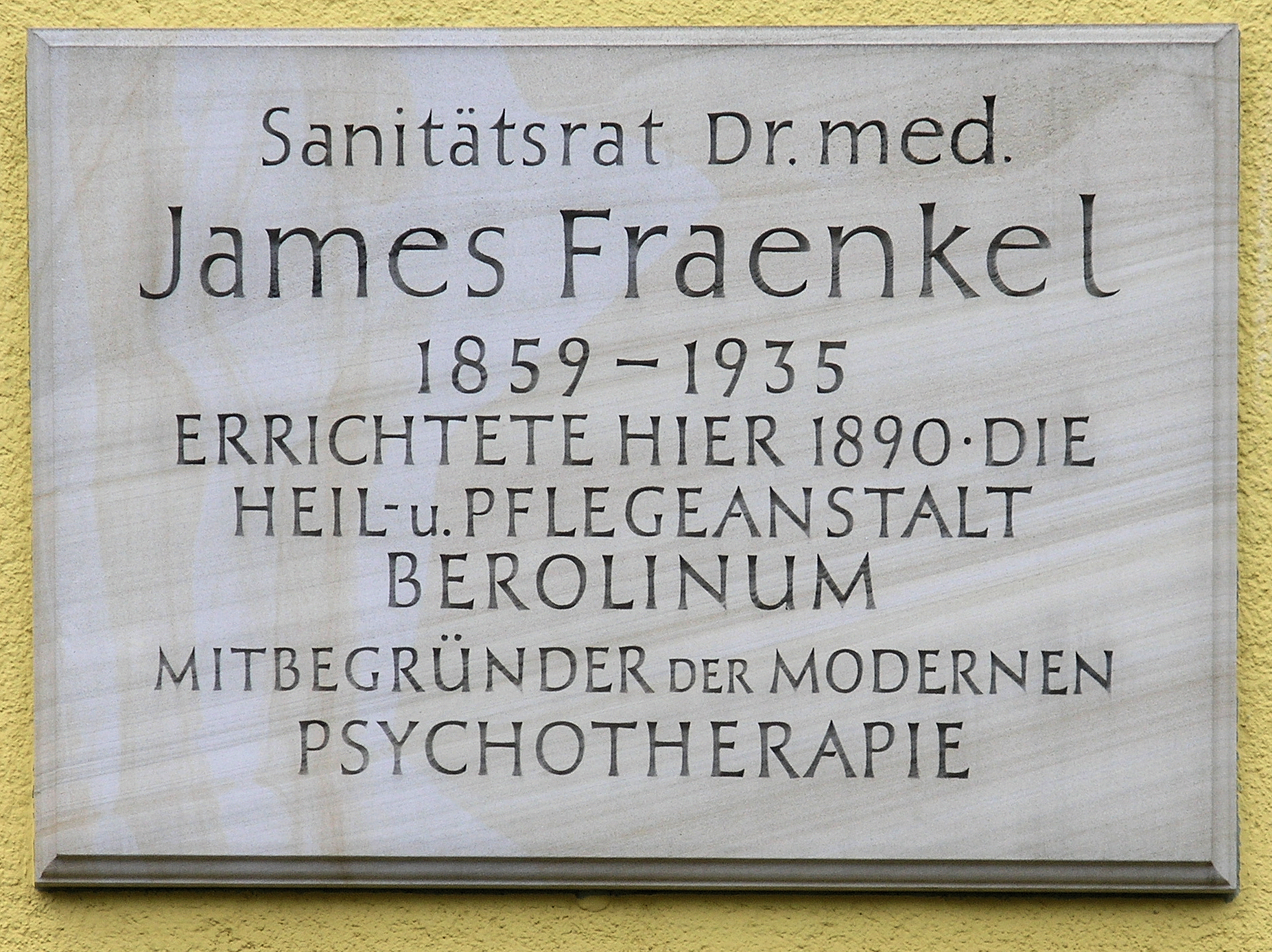 Memorial plaque, James Fraenkel, Leonorenstr 17, Berlin-Lankwitz, Germany Koordinate:52°26′40″N 13°20′24″E / 52.44444°N 13.34°E